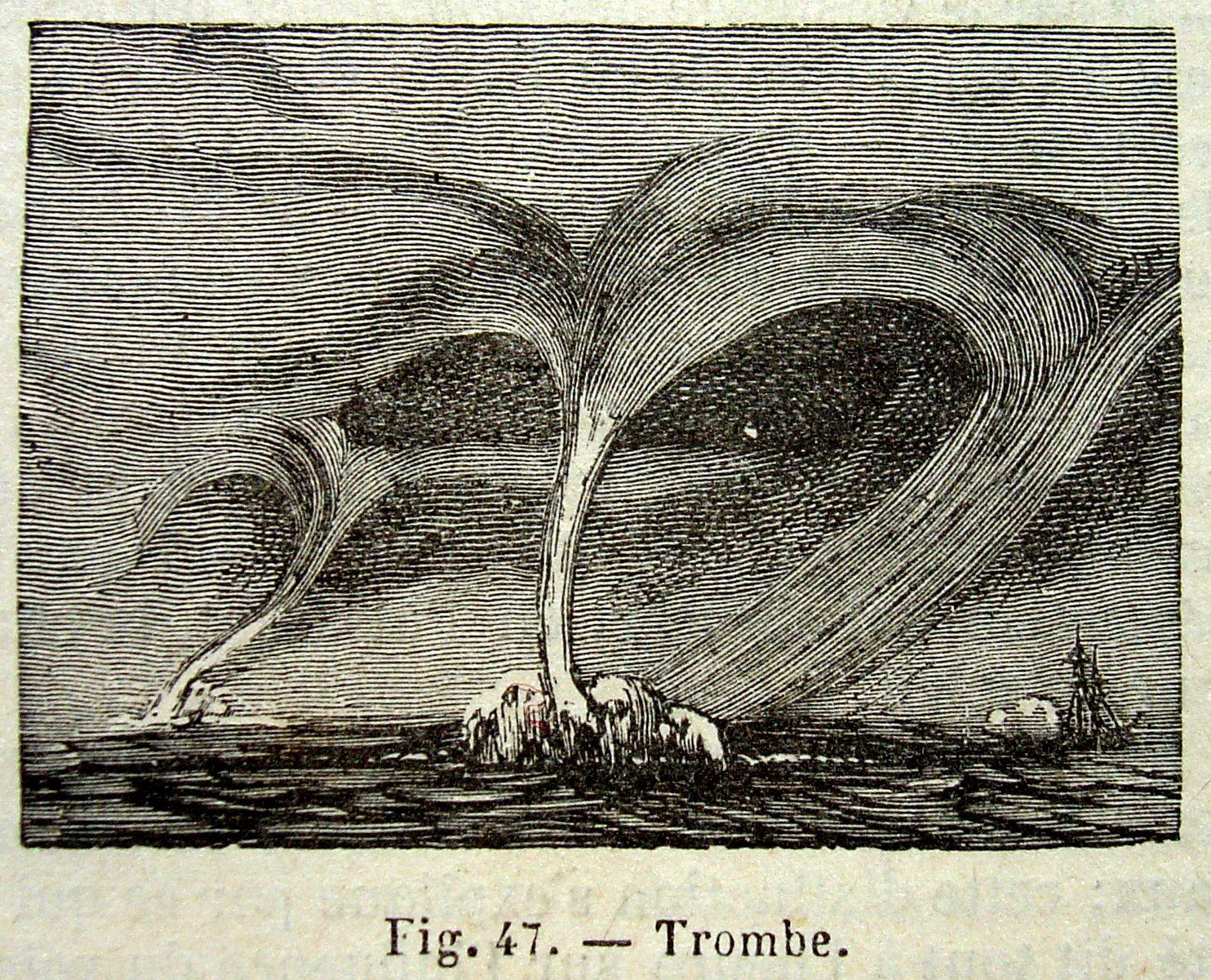 Trombe